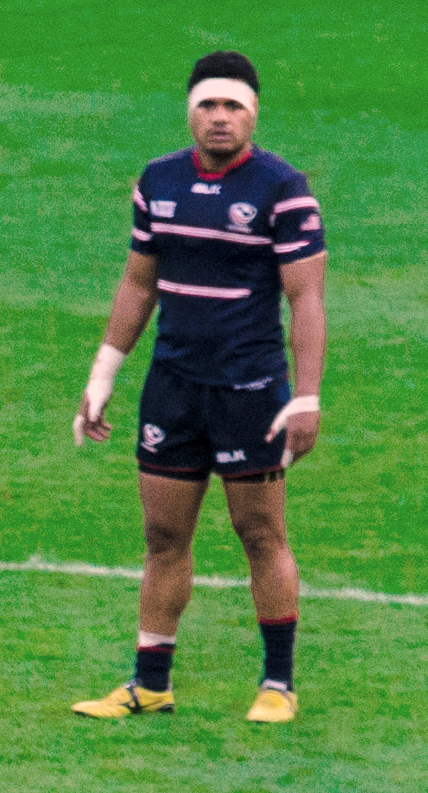 2015 Rugby World Cup game between South Africa and the United States played at the Olympic Stadium in London.